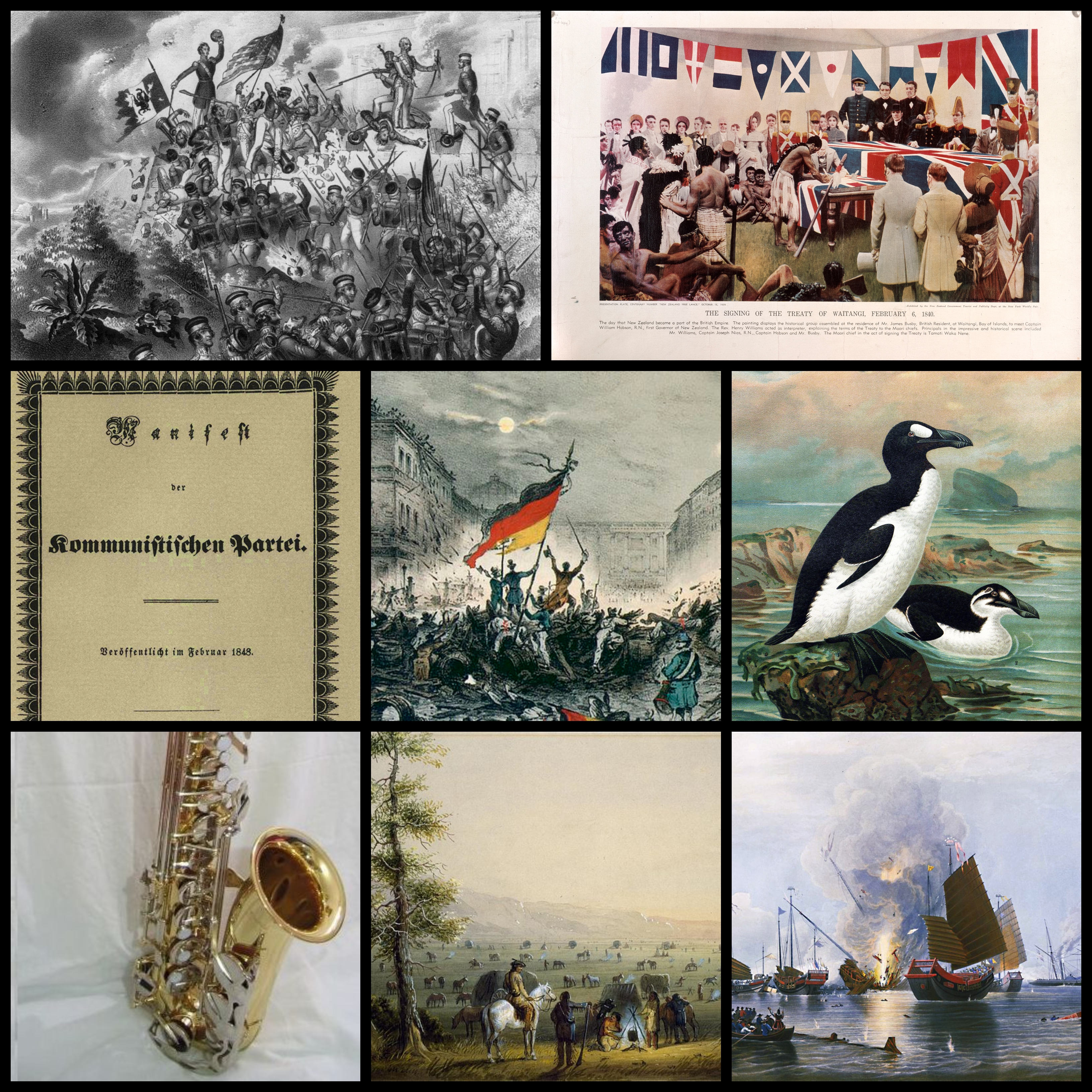 A montage of notable events in the 1840s.